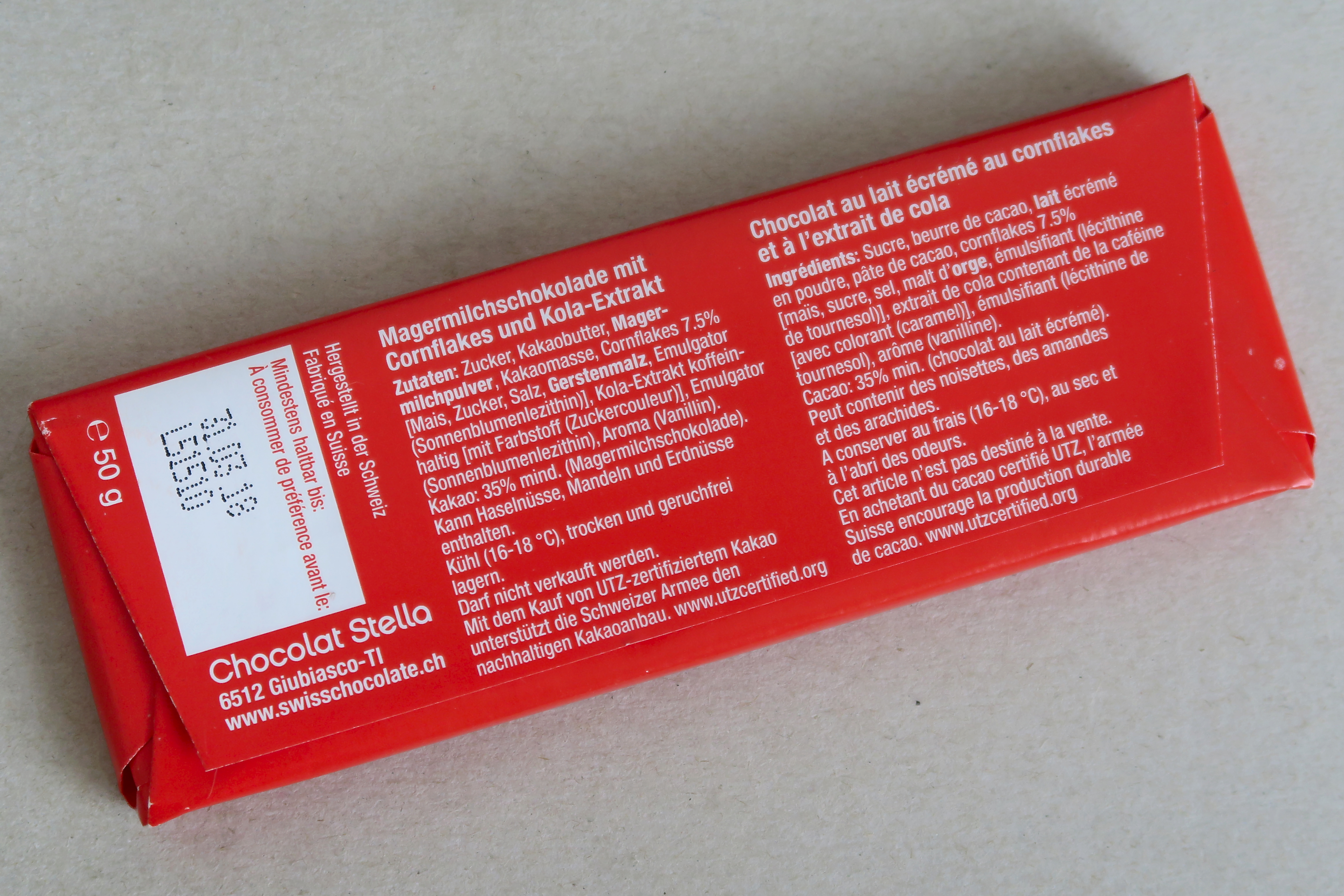 The Swiss army supports the sustainable cultivation of UTZ-certified cocoa. Secret weapon revealed. Switzerland, Aug 26, 2015.